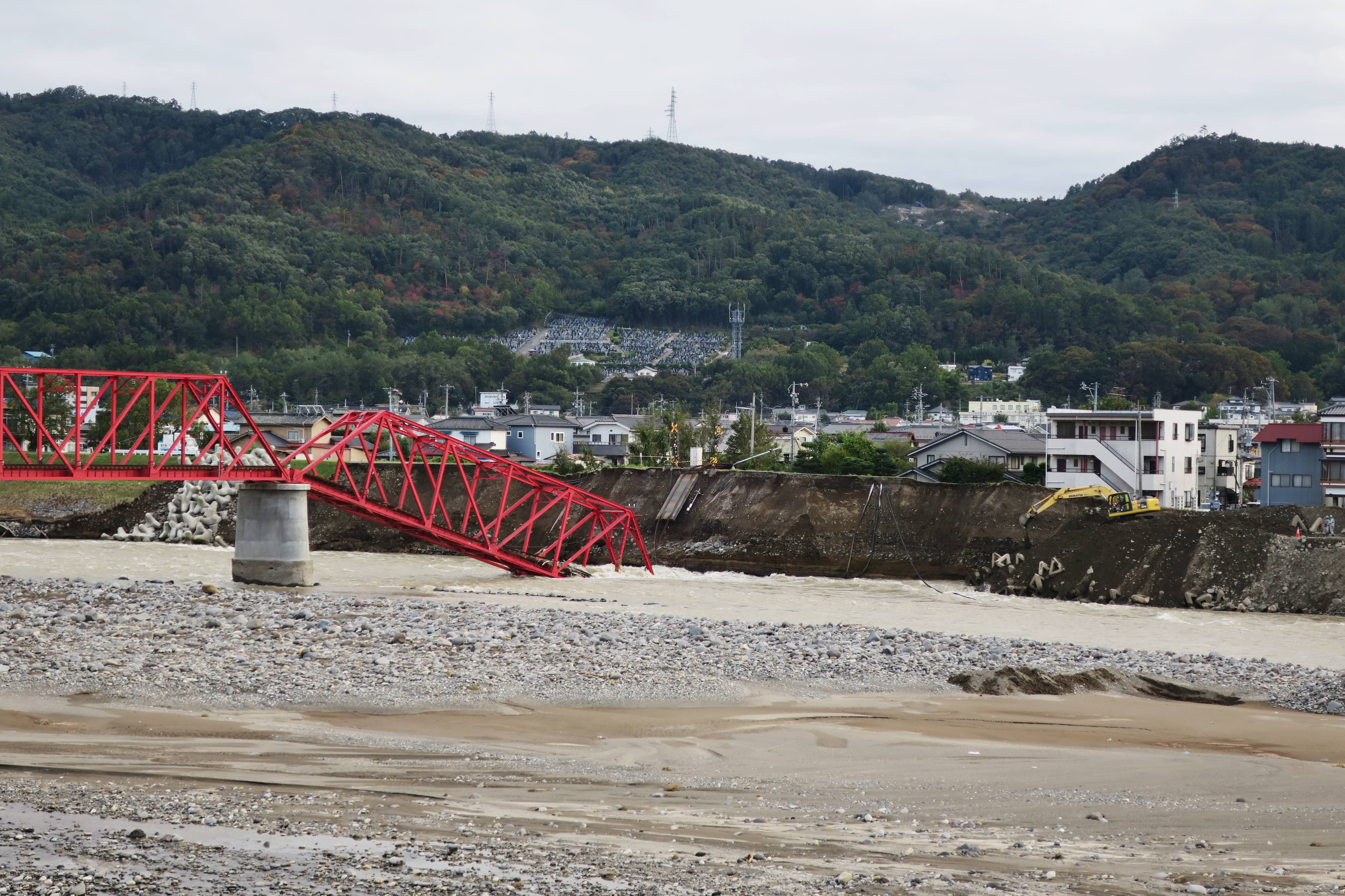 Ueda Electric Railway Bessho Line Chikuma River Bridge collapsed.